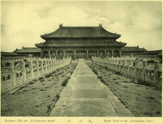 old photo from China 1900-1903, see the file's name for detail.